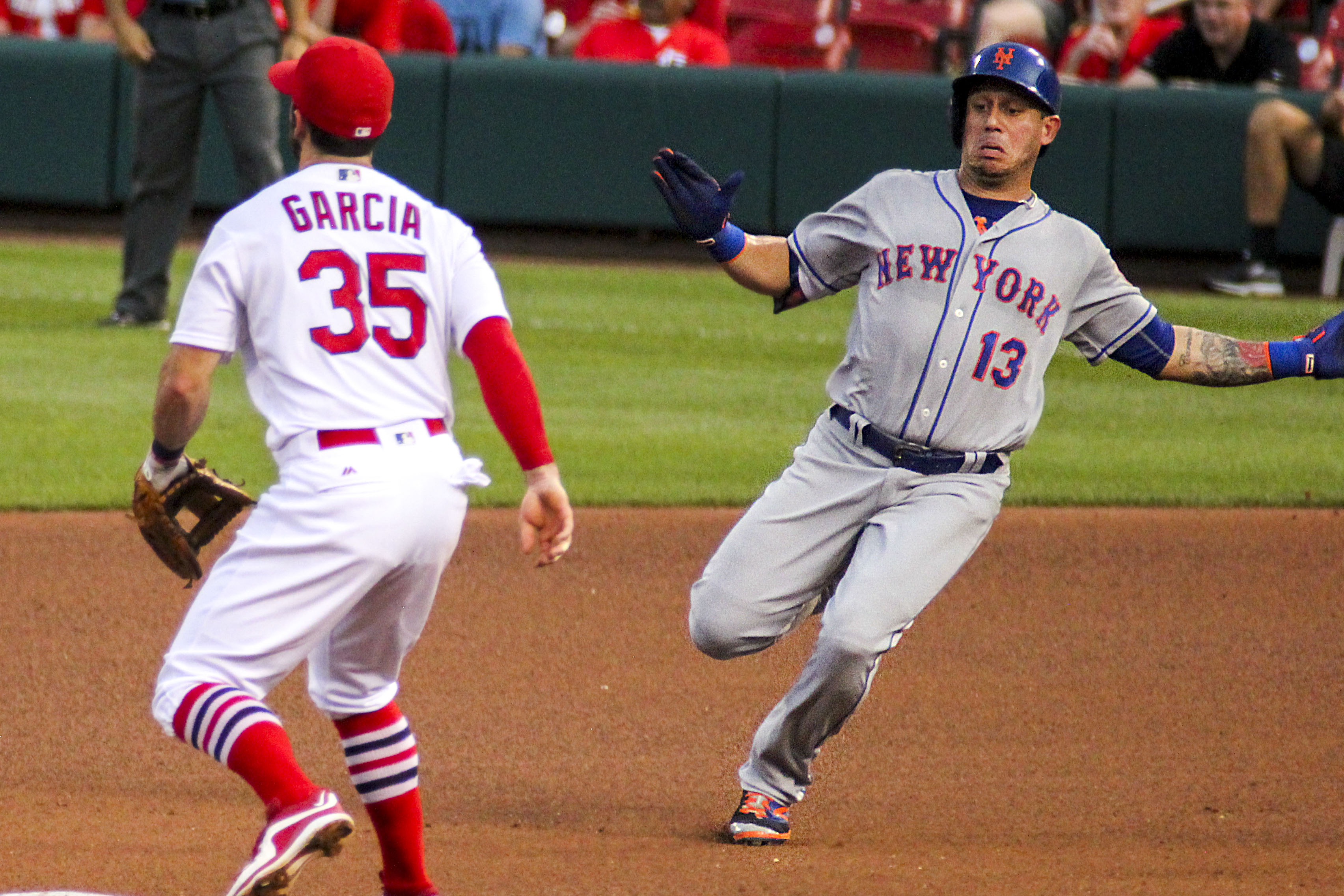 Asdrúbal Cabrera of the New York Mets.